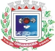 Brasão da Cidade de Umuarama